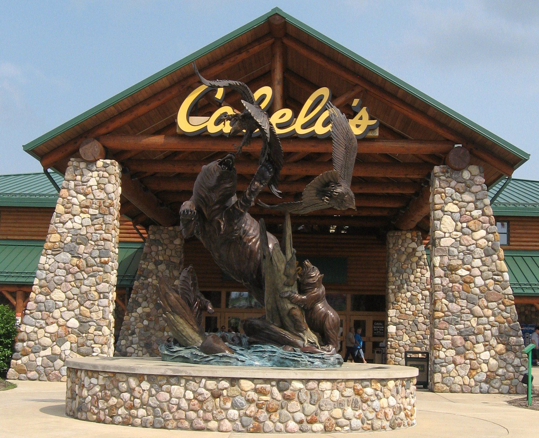 The statute outside Cabela's in Wheeling, WV40°3′35″N 80°35′47.6″W / 40.05972°N 80.596556°W